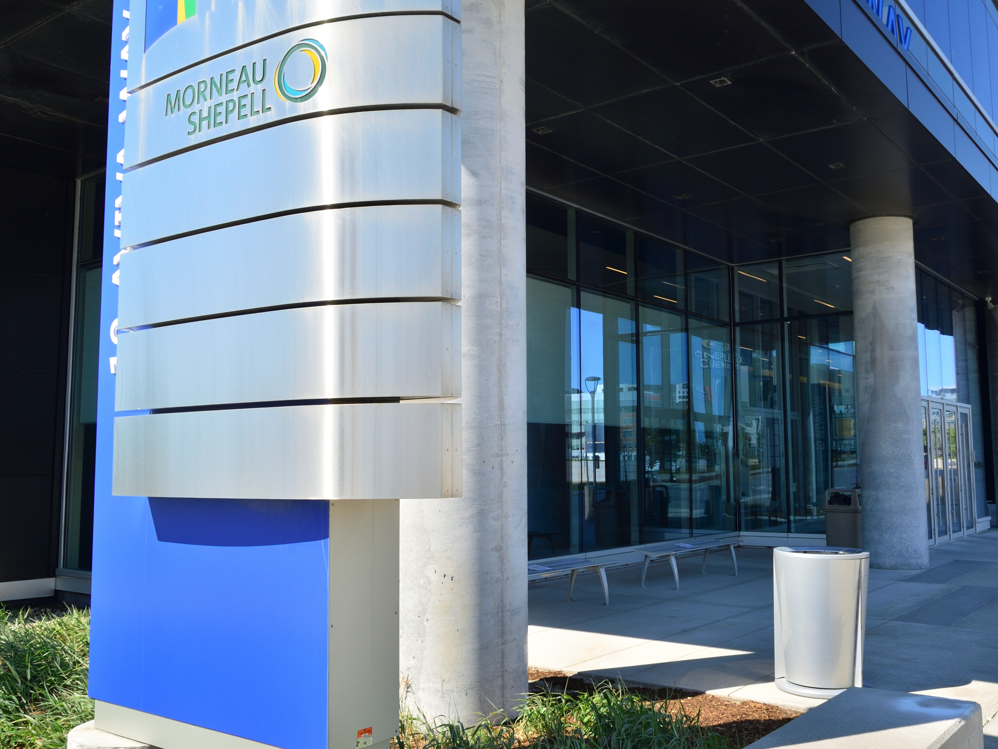 Morneau Shepell in Markham - Address: 10 Aviva Way 2nd floor, Markham, ON L6G 1B3